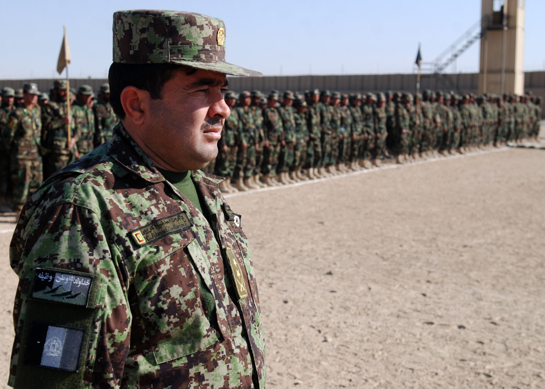 Kandahar Province, Afghanistan (January 13,2011) - The Afghan National Army (ANA) graduated 1,385 recruits from its Basic Warrior Trainee course at Regional Military Training Center(RMTC) on Thursday January 13, 2011. Once the recruits leave RMTC they will head to a technical school and then proceed to the 205 Corp of the ANA.